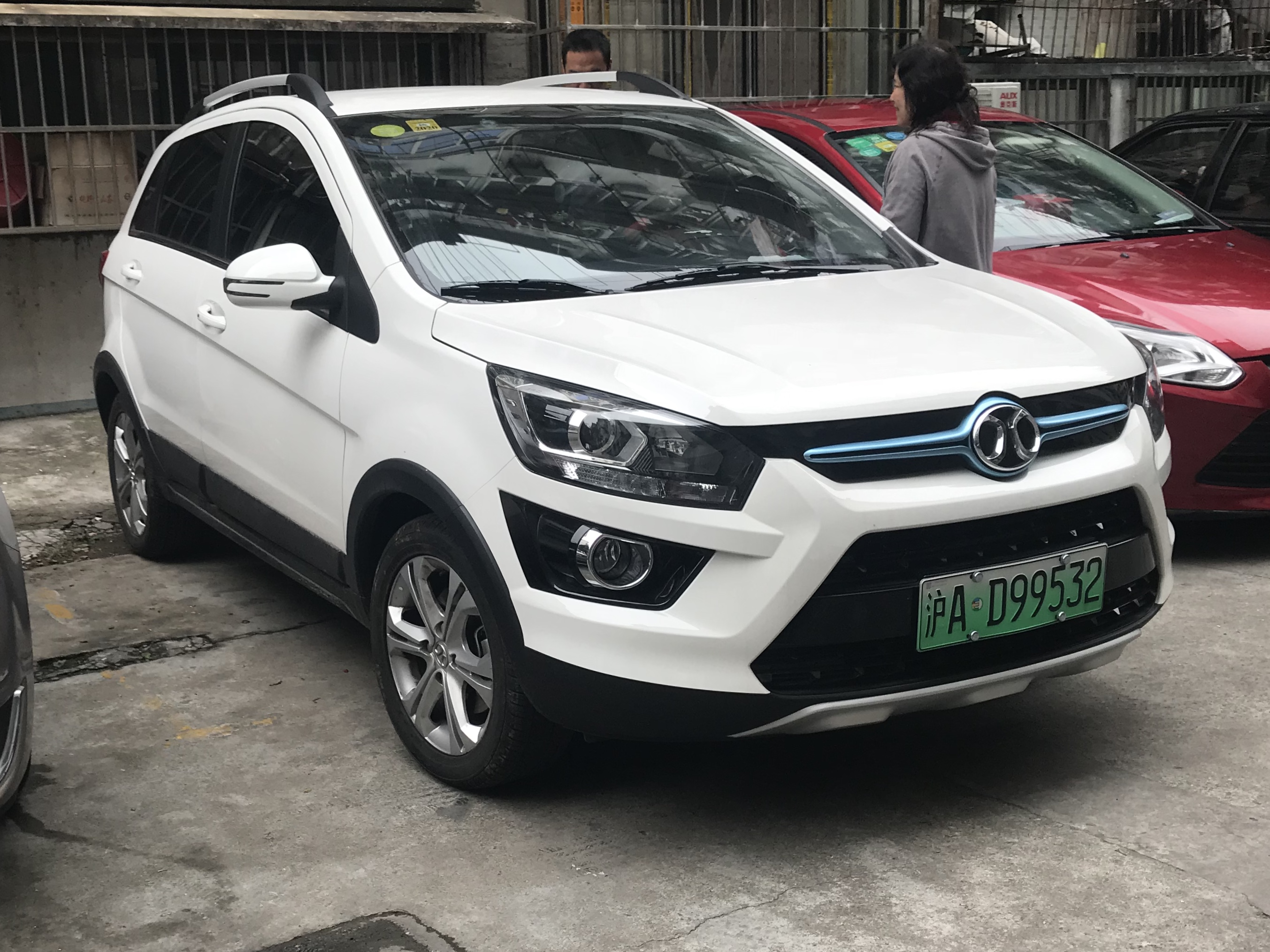 BJEV EX360 based on the Senova X25